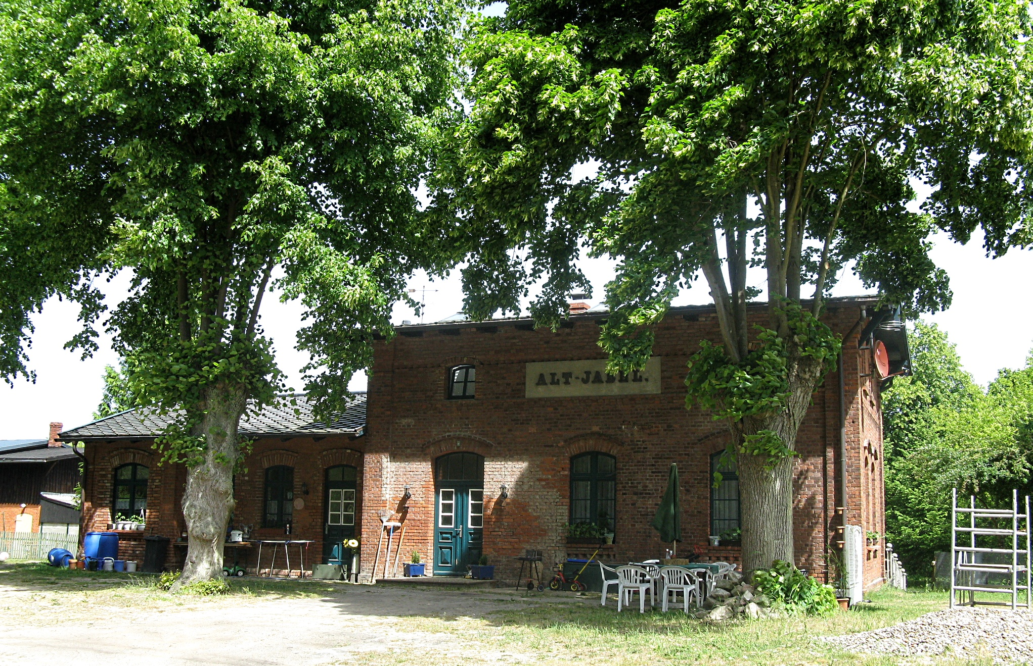 Former train station in Alt Jabel (Vielank) in , Mecklenburg-Vorpommern, Germany